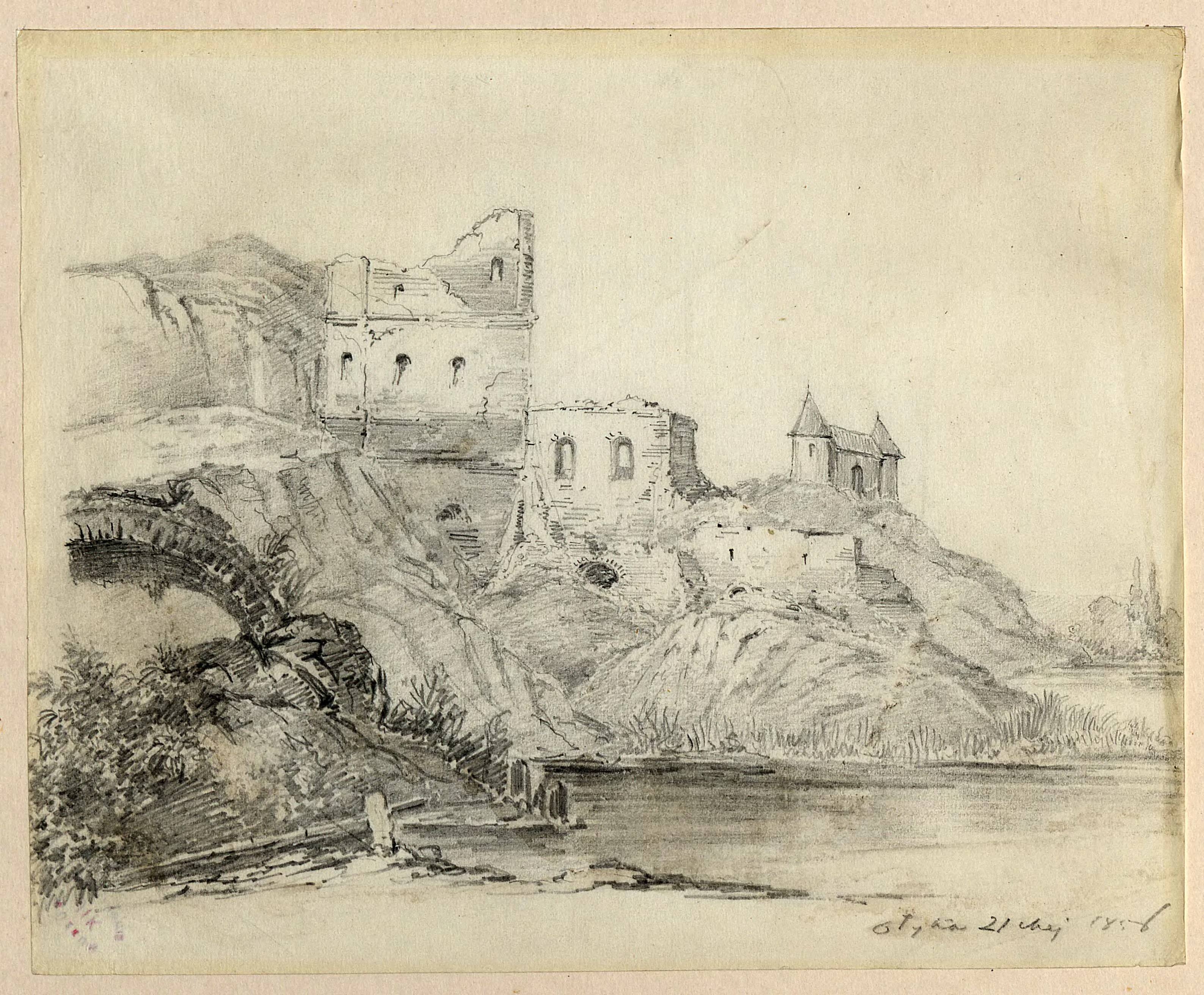 Olyka